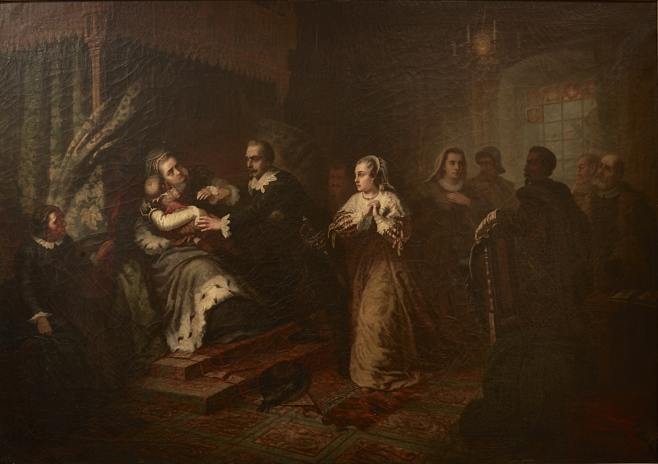 Andreas Kielmann: Güstrower Prinzenraub; zweite Hälfte des 19. Jahrhunderts, Stadtmuseum Güstrow; the painting depicts the removal of the 4 year old Duke Gustav Adolf from his mother Eleonora Maria on January 17, 1637